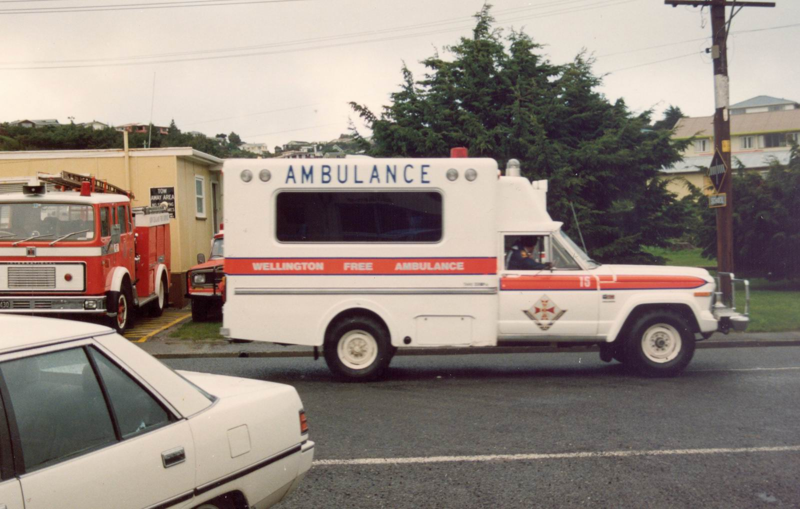 More photos at